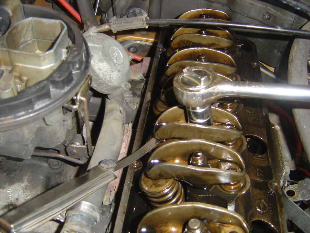 Picture of a CIH Engine of the type 19S with 90HP. Built in an Opel Manta B. Feeler gauge applied.